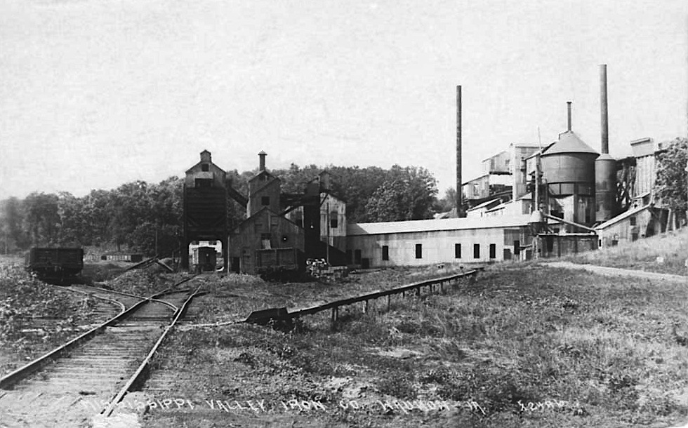 Caption from postcard: "Missippi Valley Iron Co. Waukon, IA, X2496" (could be 12496). This was an iron ore benefication mill built in 1913 by the Missouri Iron Company just north of Waukon, Iowa to process limonite ore. Another photo of the same plant is given in the Iowa Geological Survey Annual Report for 1914, page 85, along with a description of the mine and mill, and the 1930's USDA orthophotos show the mill buildings shortly before their demolition. This image has been edited to remove spots in the sky.